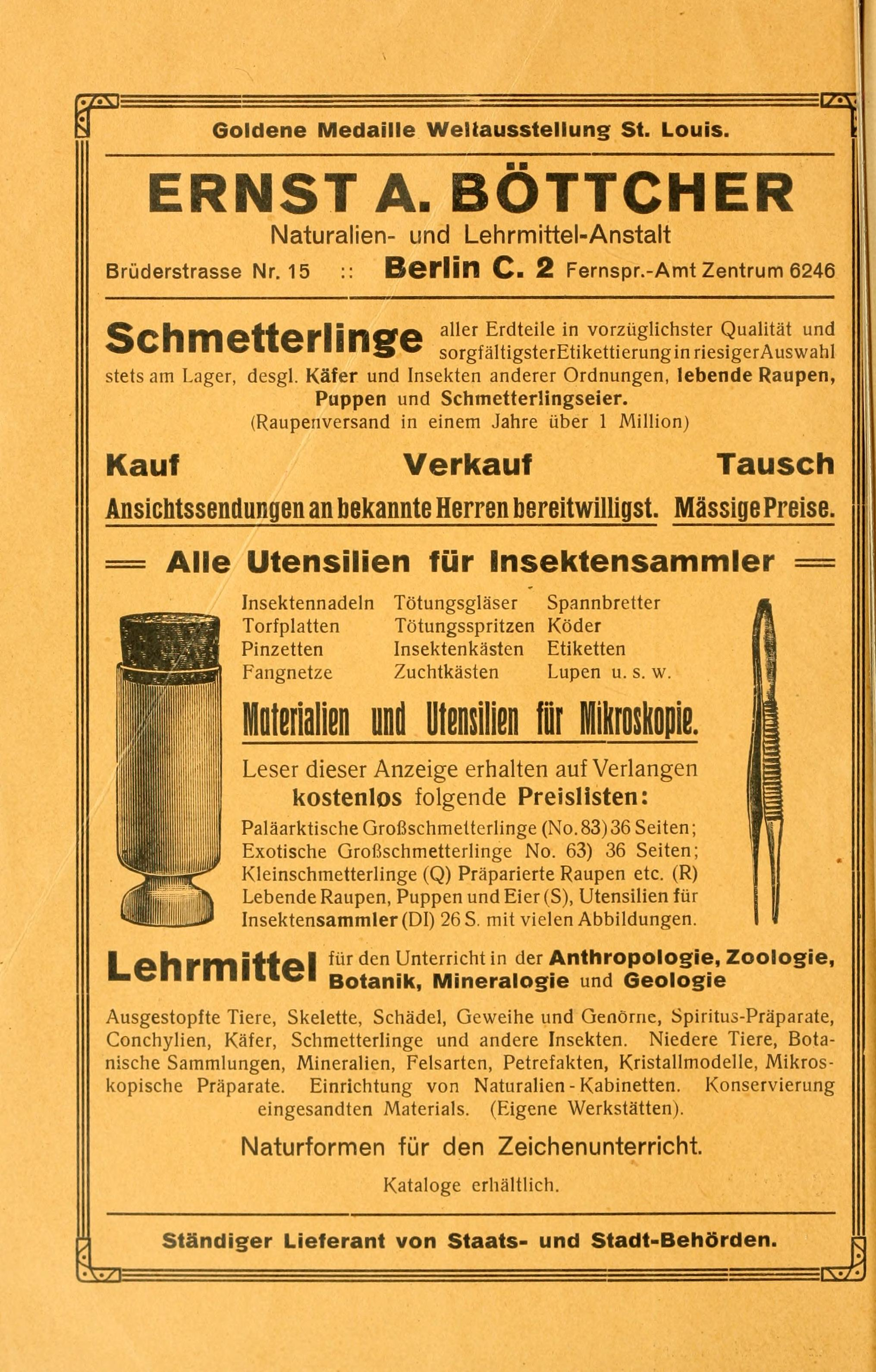 Ernst A. Bottcher, Naturalien und Lehrmittel-Anstalt Berlin C. 2, Brüderstrasse 15.